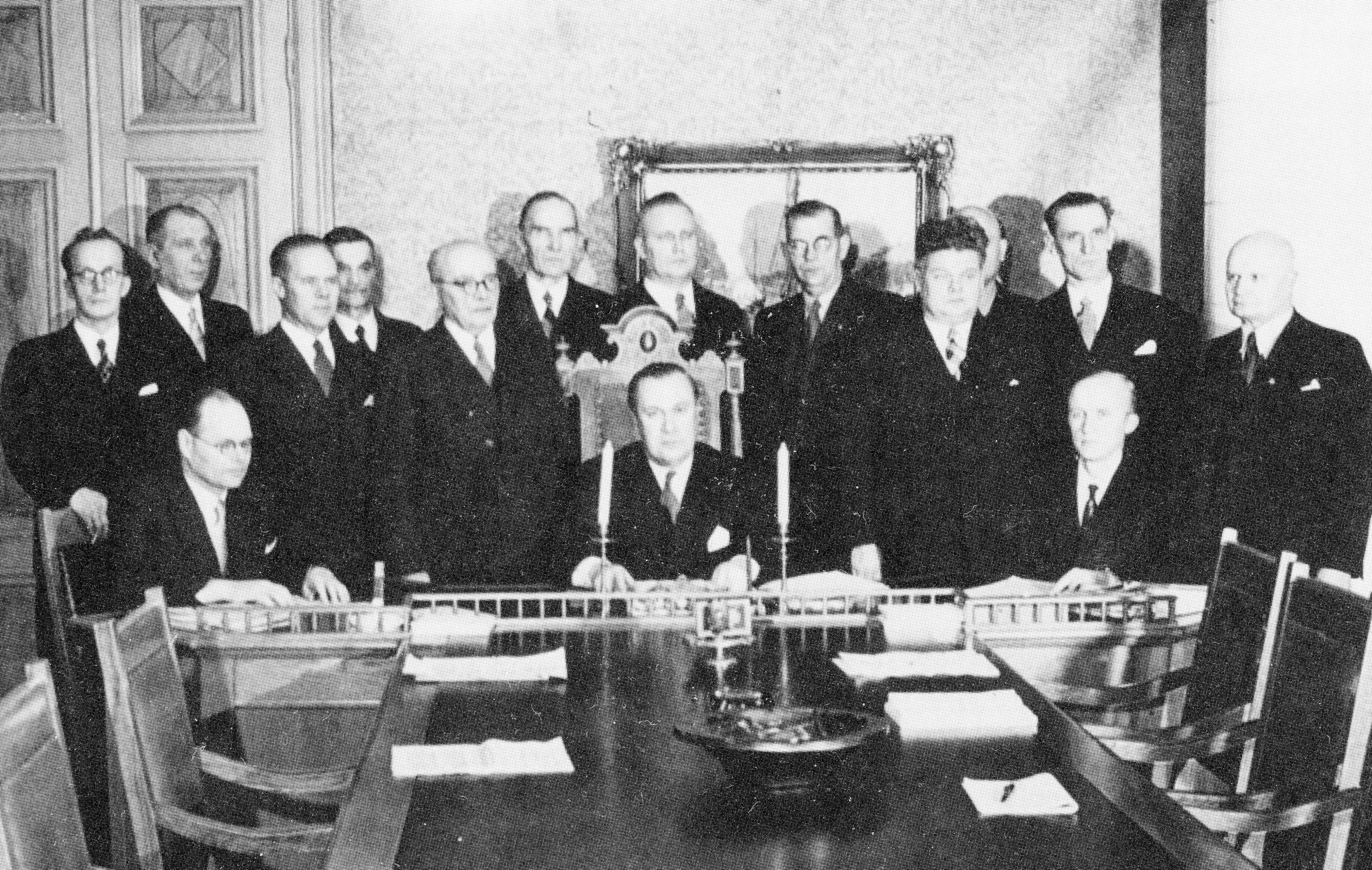 Eero Mantere at Turku City Hall in 1951